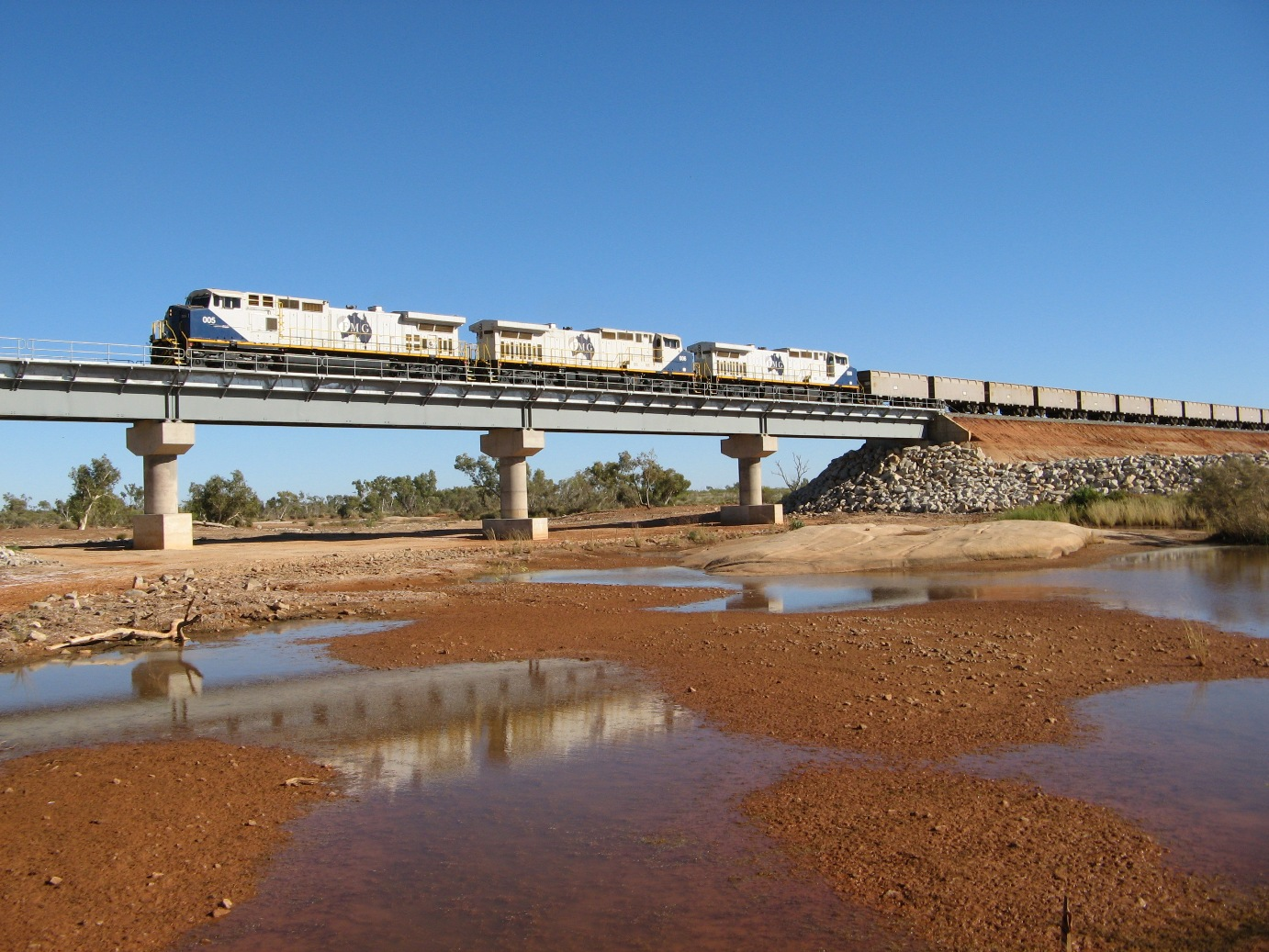 Fortescue Metals Group (FMG) 2.6km long, empty iron ore train crossing the Turner River in the Pilbara region, Western Australia. July 2008. Loaded trains carry 31,784 ton of iron ore. Location Pilbara region